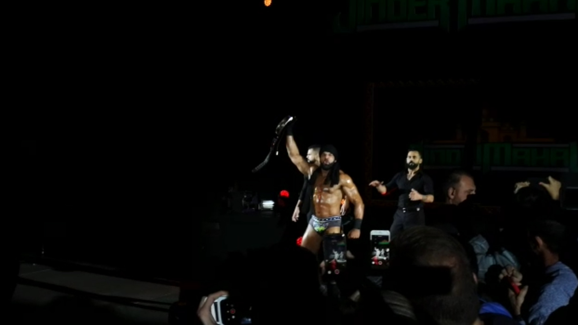 Jinder Mahal with The Singh Brothers